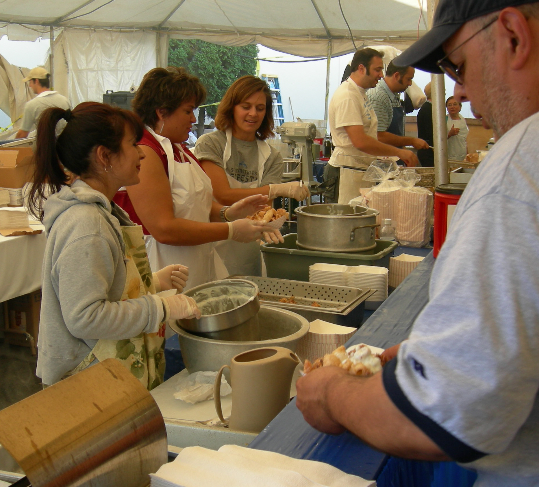 Cooking calamari, St. Demetrios Greek Festival, Seattle, Washington